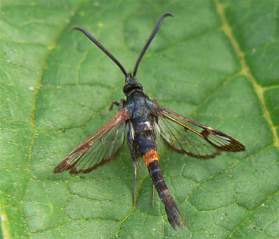 Synanthedon myopaeformis Taken in Romford, Essex, UK June 2007 UK wildlife